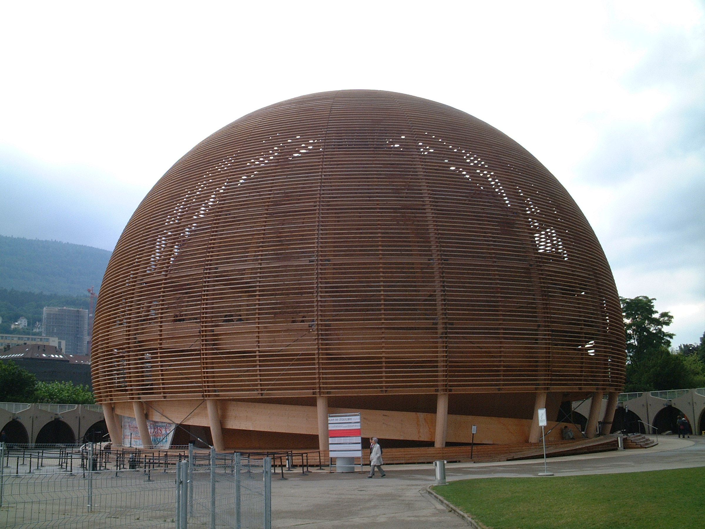 Expo.02 in Neuenburg, Yverdon, Biel and Murten (exact location see file name)